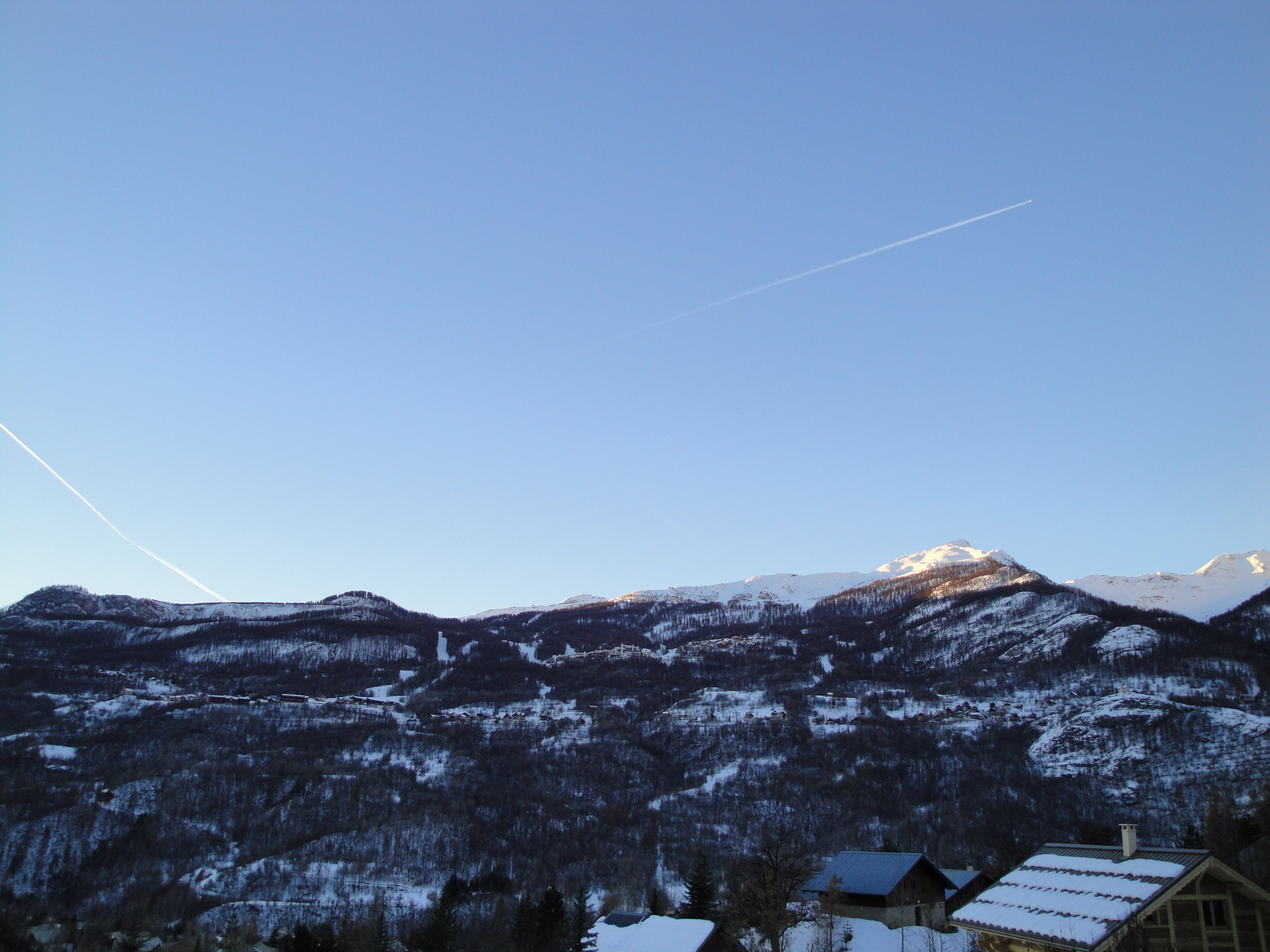 View of the ski resort of Puy Saint Vincent (Hautes-Alpes, France) from la Casse at Vallouise.